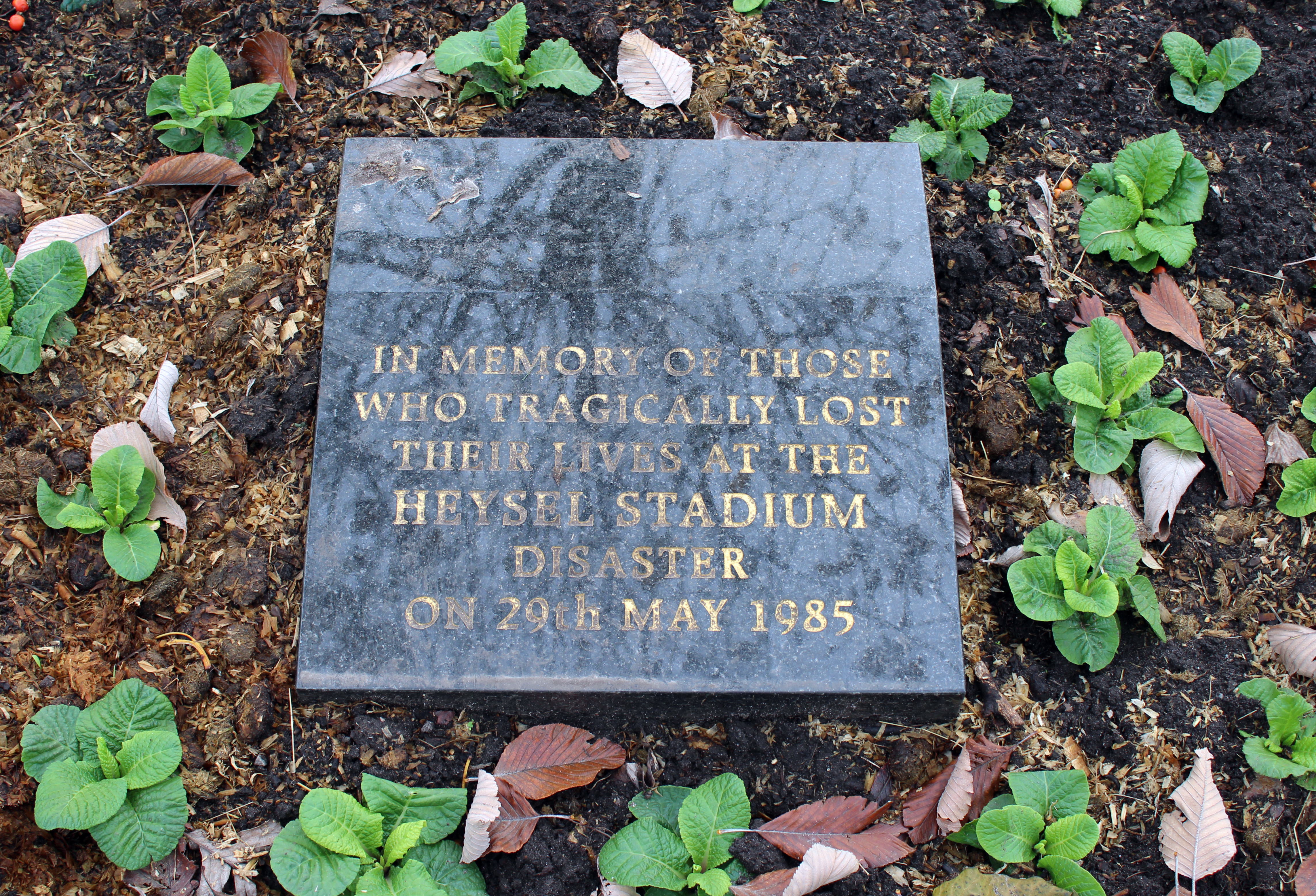 Memorial to those who died in the Heysel Stadium disaster of 1985